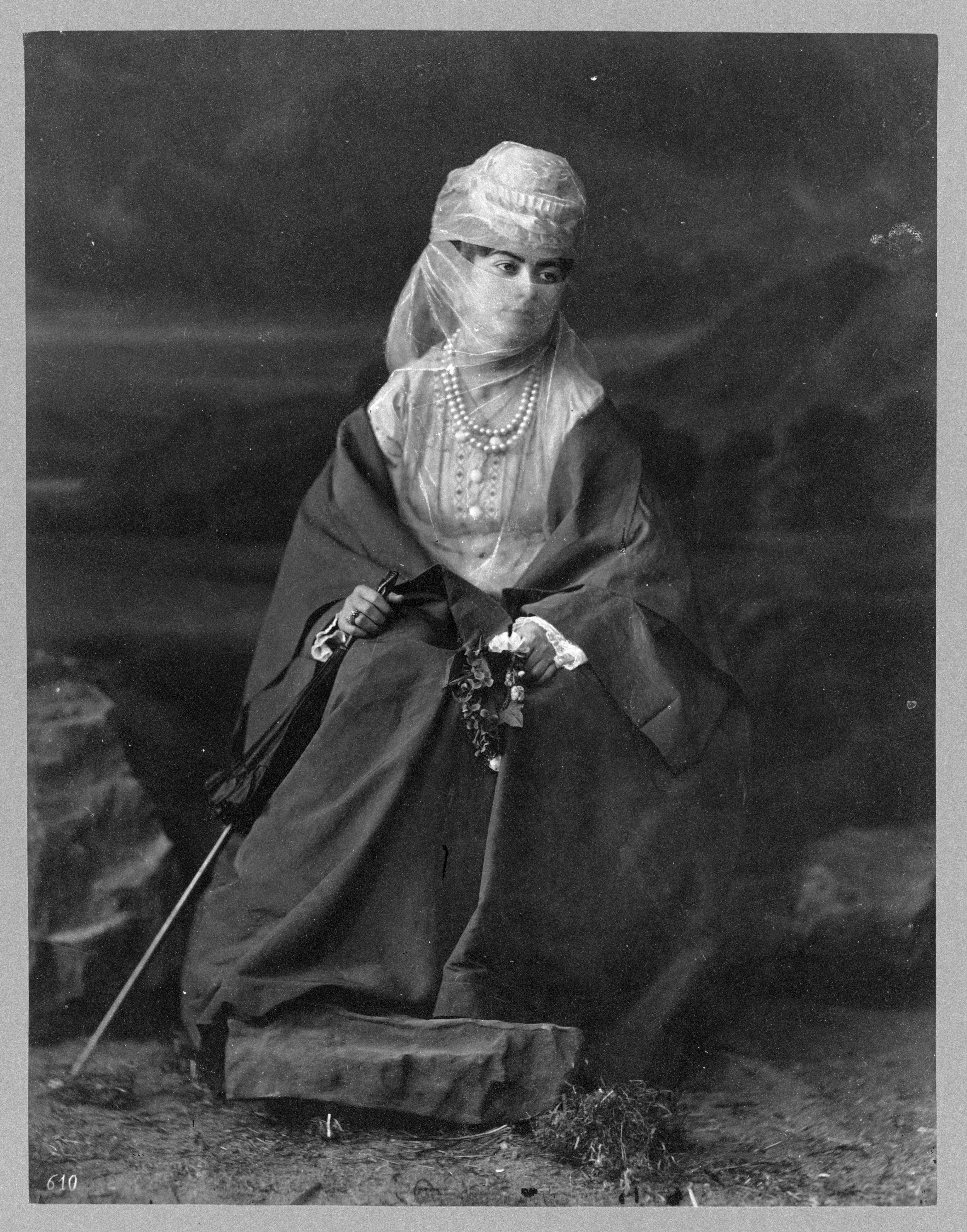 Turkish woman, full-length portrait, seated, facing front, holding parasol and flowers.